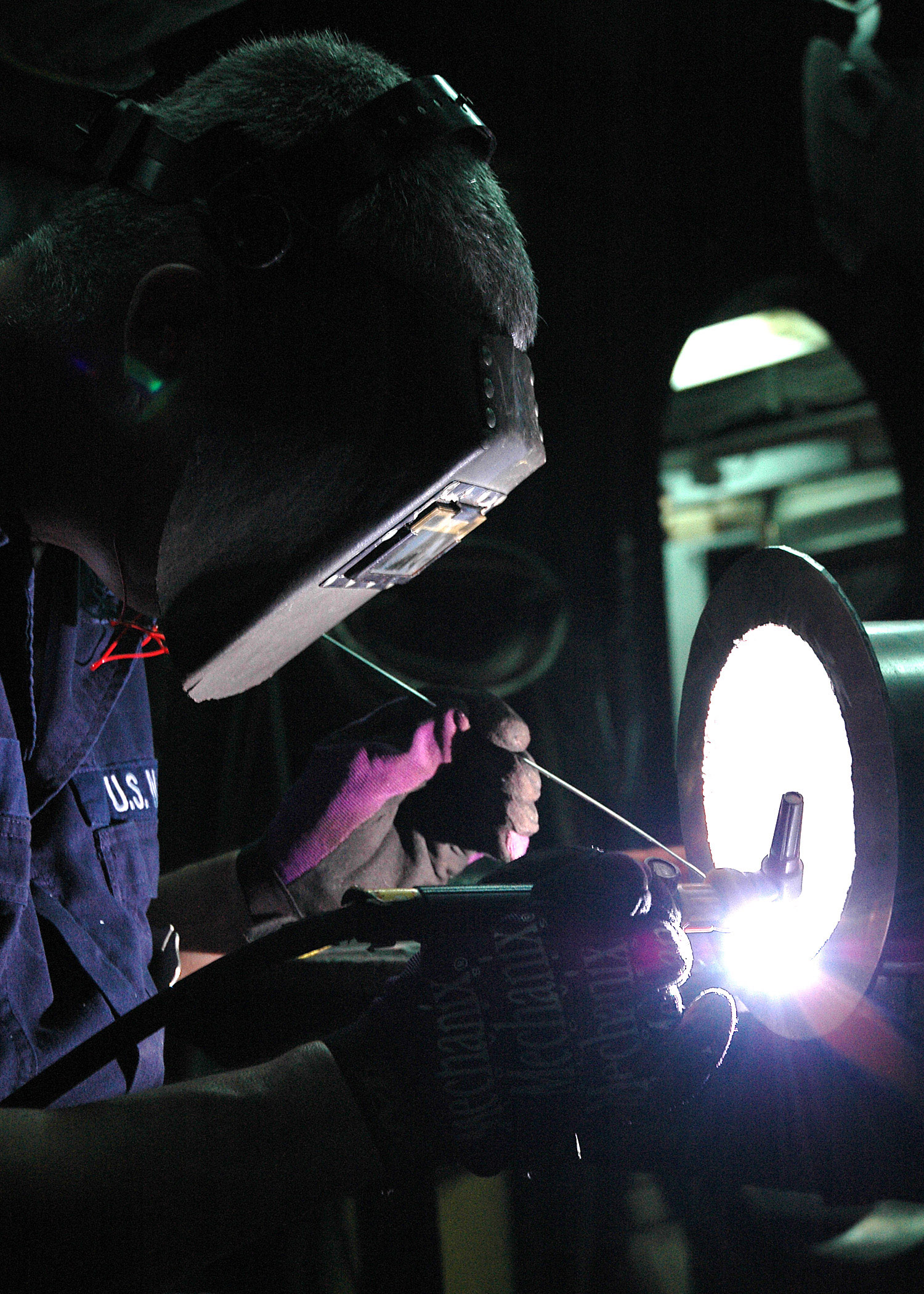 Gulf of Aden (Sept. 7, 2006) - Hull Technician 1st Class Billy D. King uses a Gas Tungsten Arc Welder to patch together piping aboard the amphibious assault ship USS Saipan (LHA 2). U.S. Navy photo by Mass Communication Specialist 3rd Class Erik Siegel (RELEASED)